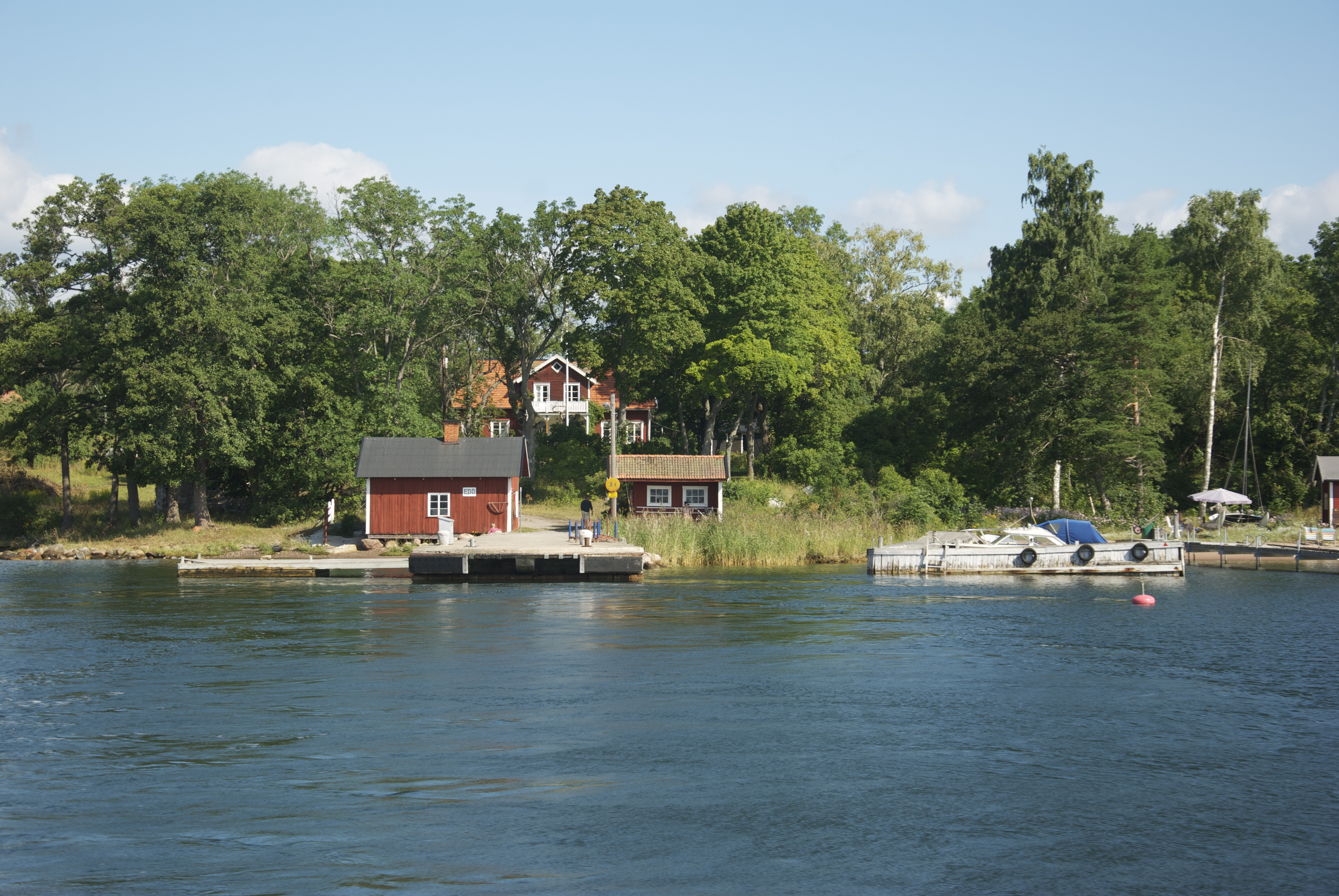 Edö, Österåker.